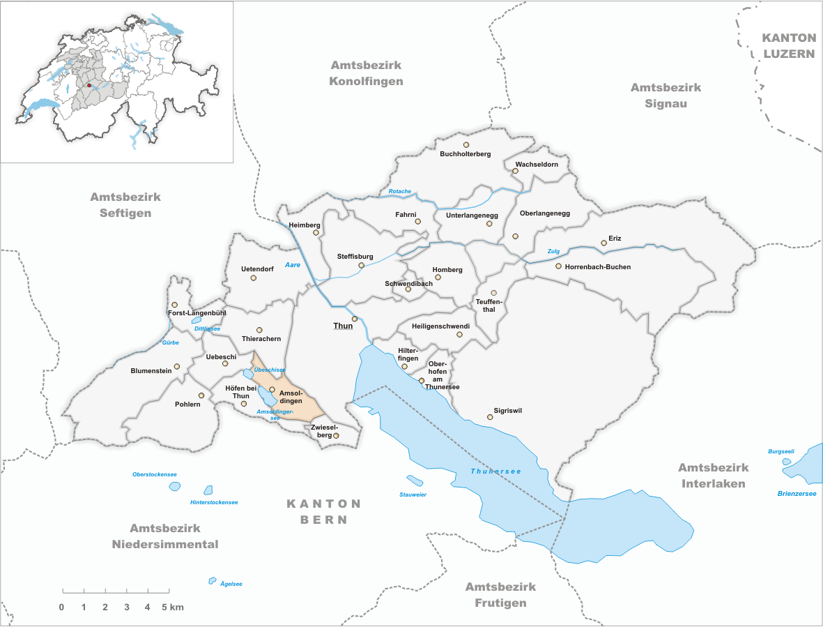 Municipality Amsoldingen